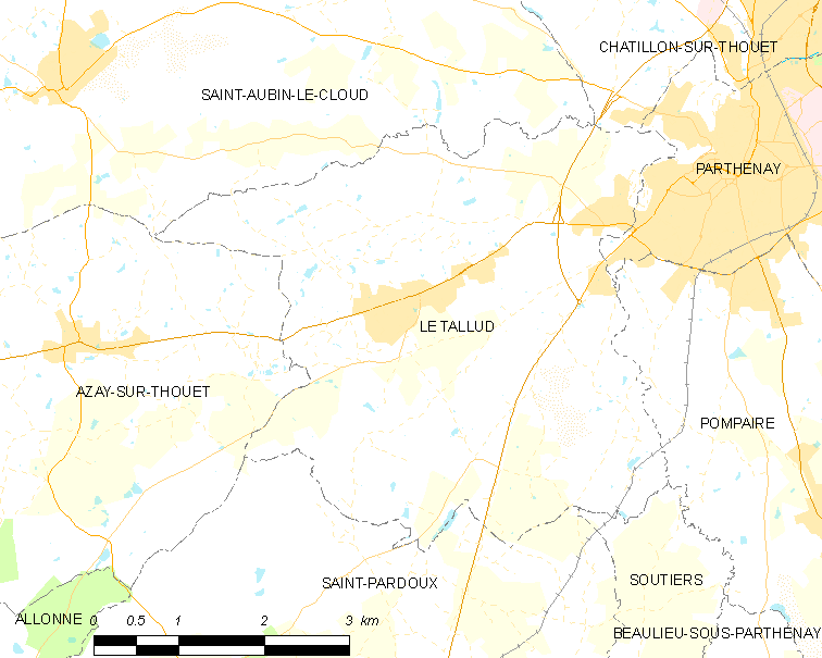 Map of French municipality Le Tallud